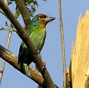 Ceylon Small Barbet photographed near the Senate Building of the University of Peradeniya, Sri Lanka, by Manjula Wijesundara.